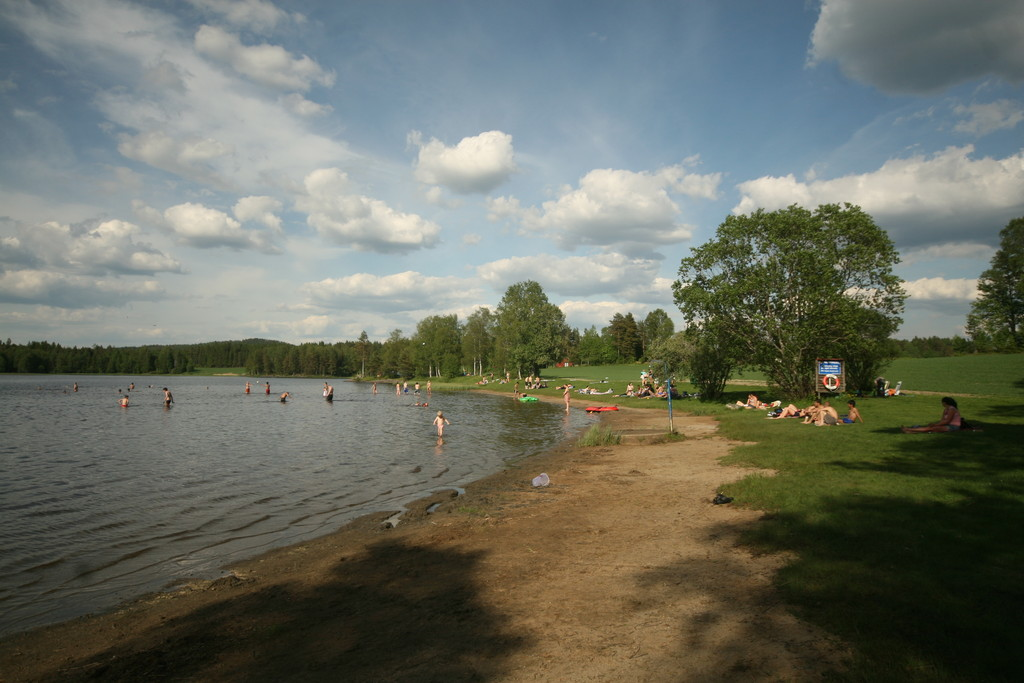 Lundebyvannet i Hærland.